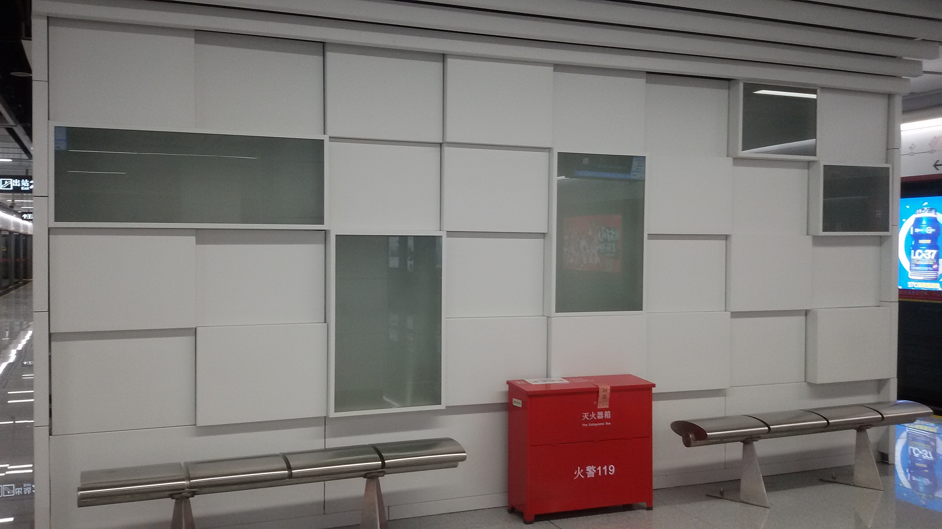 Decoration on the wall at the platform in Sino-Singapore Guangzhou Knowledge City Station